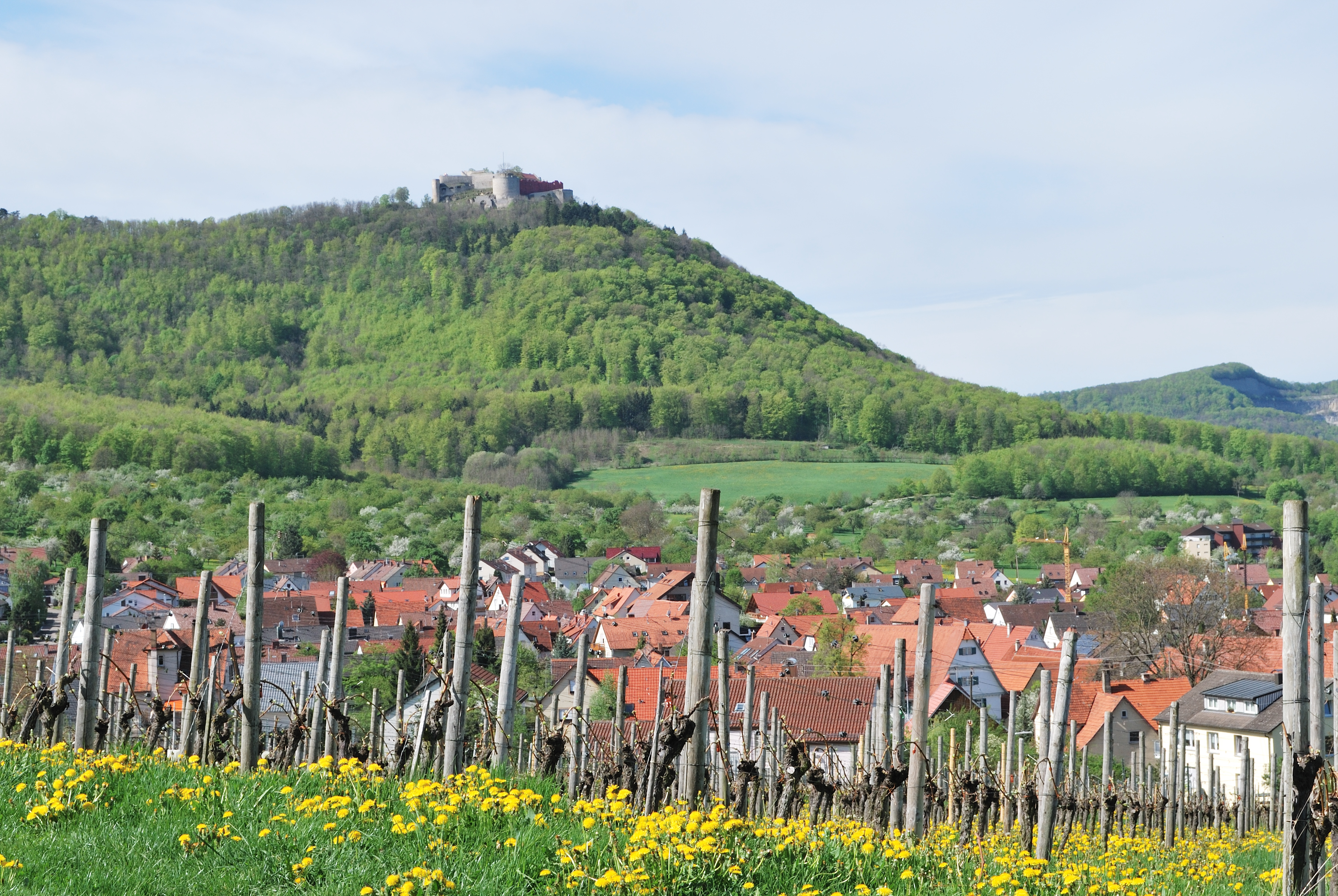 The Hohenneuffen Castle in Swabian Jura in the German Federal State Baden-Württemberg.